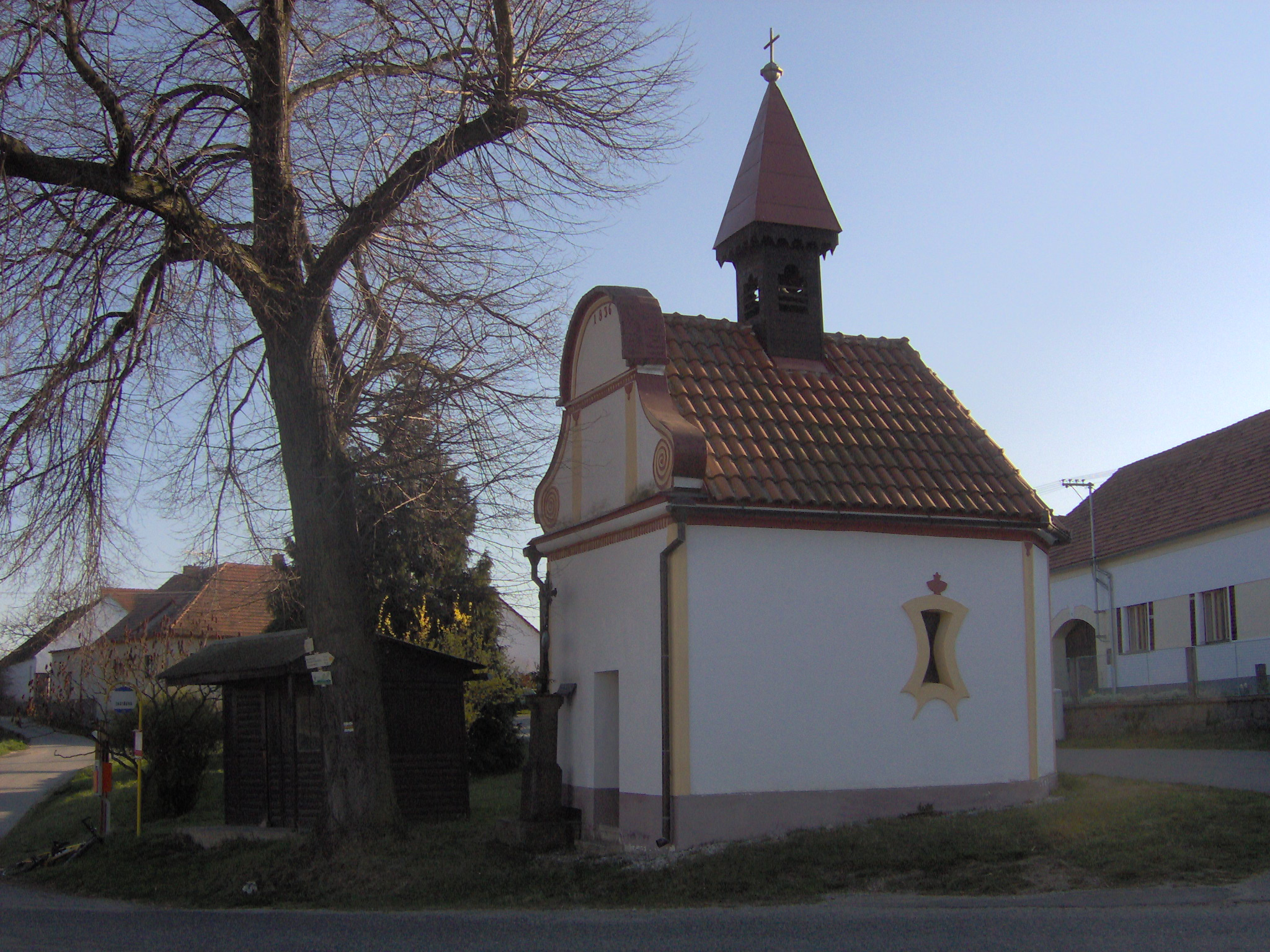 Chapel in Sudkovice, part of Miloňovice, Strakonice District, Czech republic